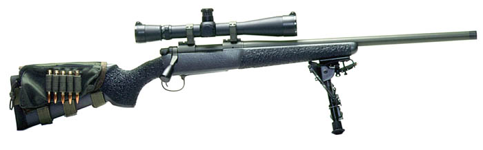 Tactical Operations Tango 51 sniper rifle